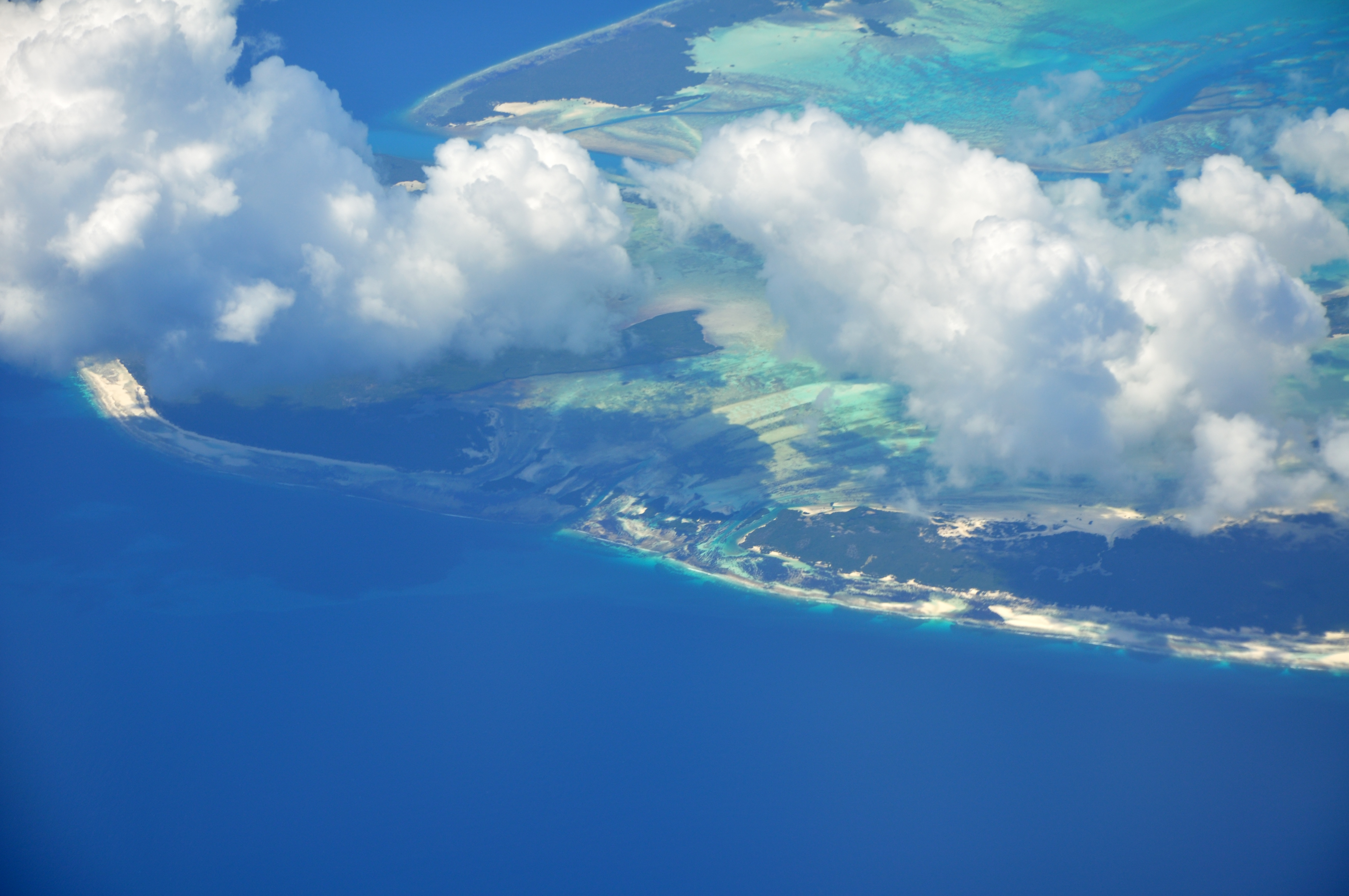 The Aldabra Islands form the largest lagoon in the Indian Ocean. The length is 34 km and the width is 14.5 km. The islands are a UN world heritage and not inhabited.